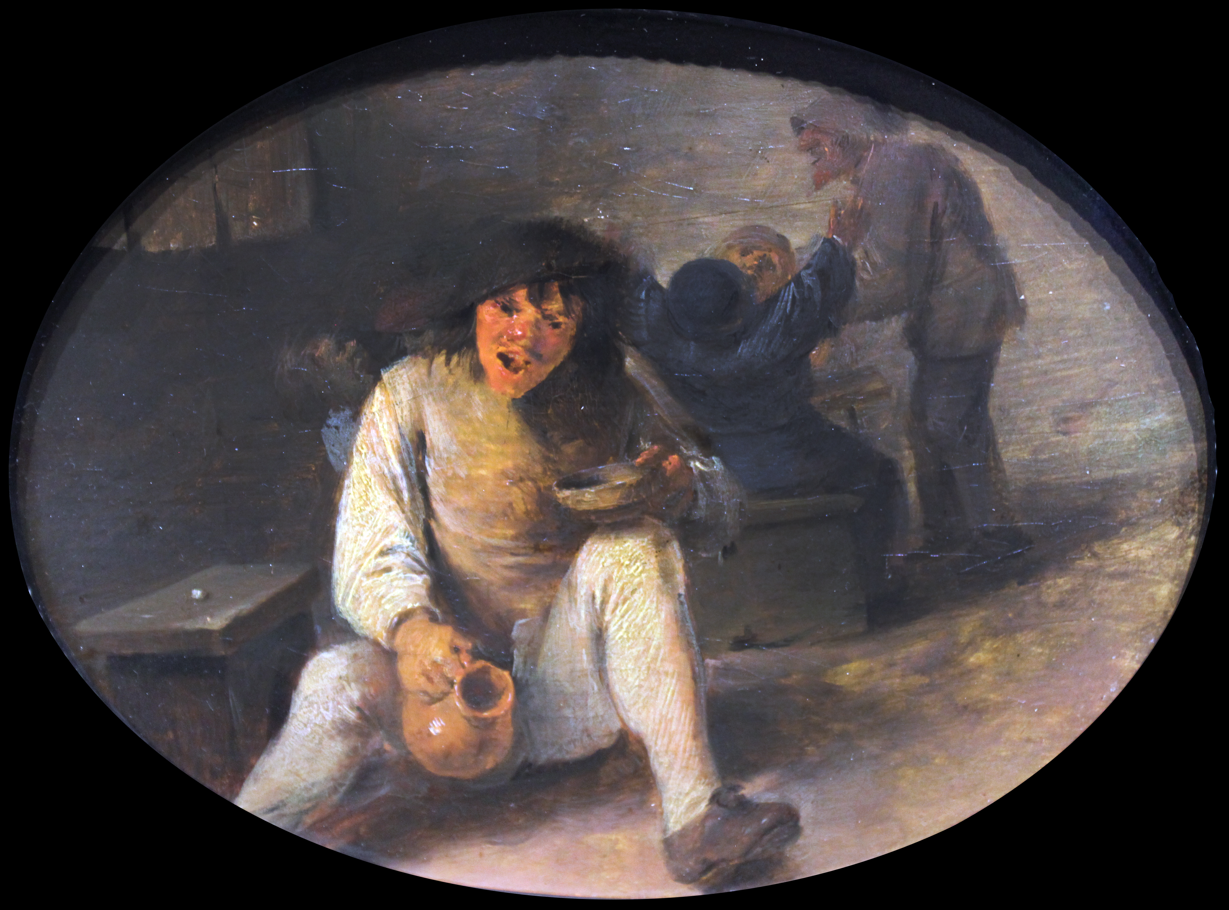 Drunken Peasant